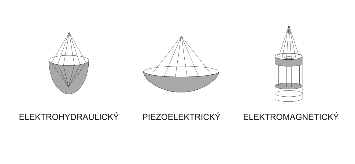 Shock wave generators